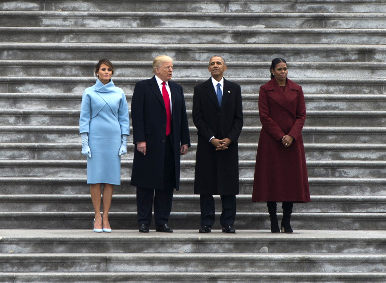 President Donald J. Trump, Mr. Barack Obama and their wives, Mrs. Melania Trump and Michelle Obama, stand on the East steps of the U.S. Capitol during the 58th Presidential Inauguration, Washington D.C., Jan. 20, 2017. More than 5,000 military members from across all branches of the armed forces of the United States, including Reserve and National Guard components, provided ceremonial support and Defense Support of Civil Authorities during the inaugural period. (DoD photo by Air Force Staff Sgt. Sean Martin). Melania Trump in Ralph Lauren, Michelle Obama in Jason Wu.